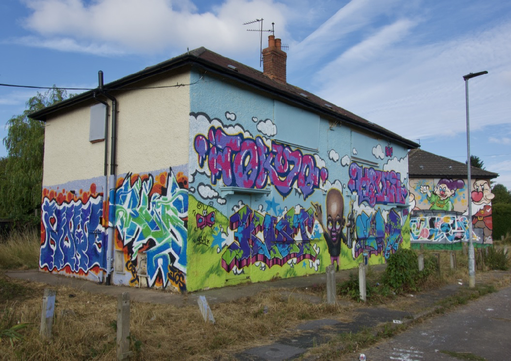 House graffiti, Preston Road, Hull (2)